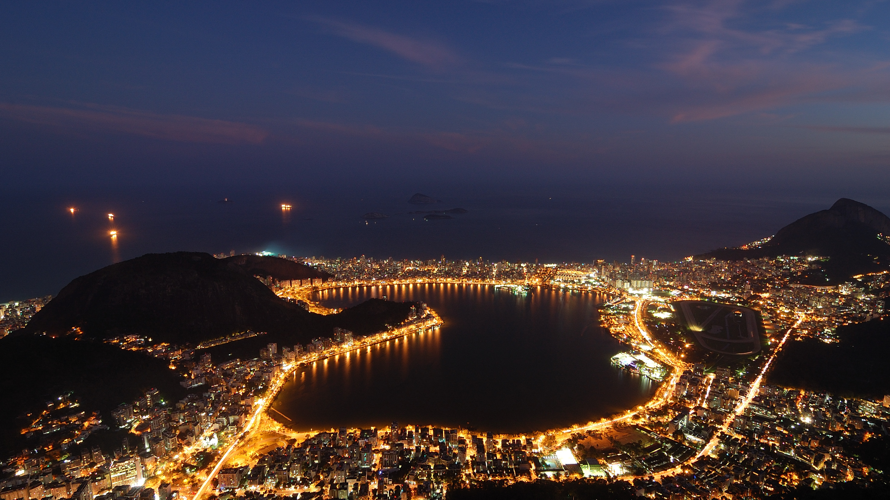 Rodrigo de Freitas Lagoon at night from Corcovado, Rio de Janeiro, Brazil.